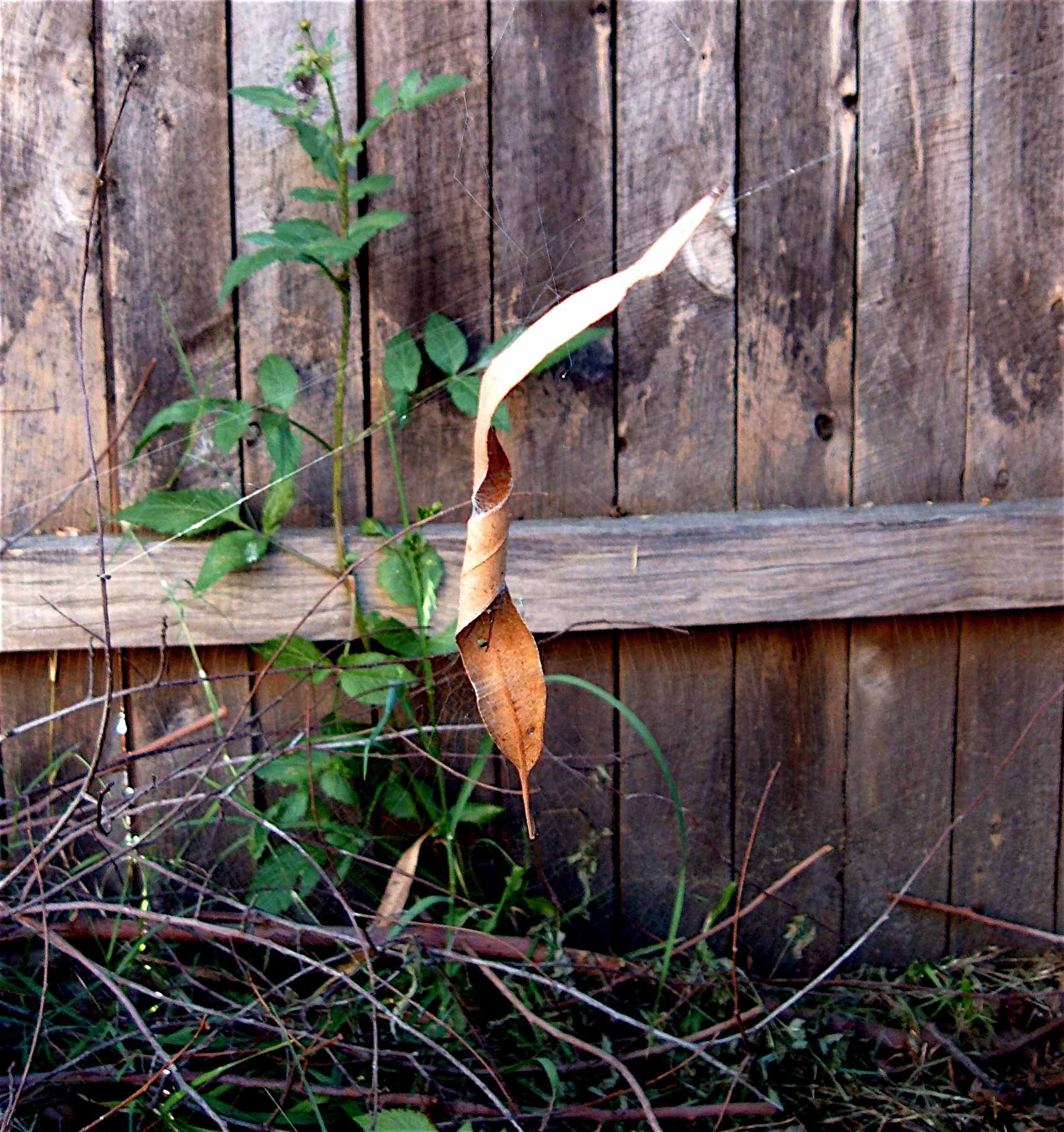 Phonognatha graeffei or Leaf curling spider in its retreat with web in an Australian garden.